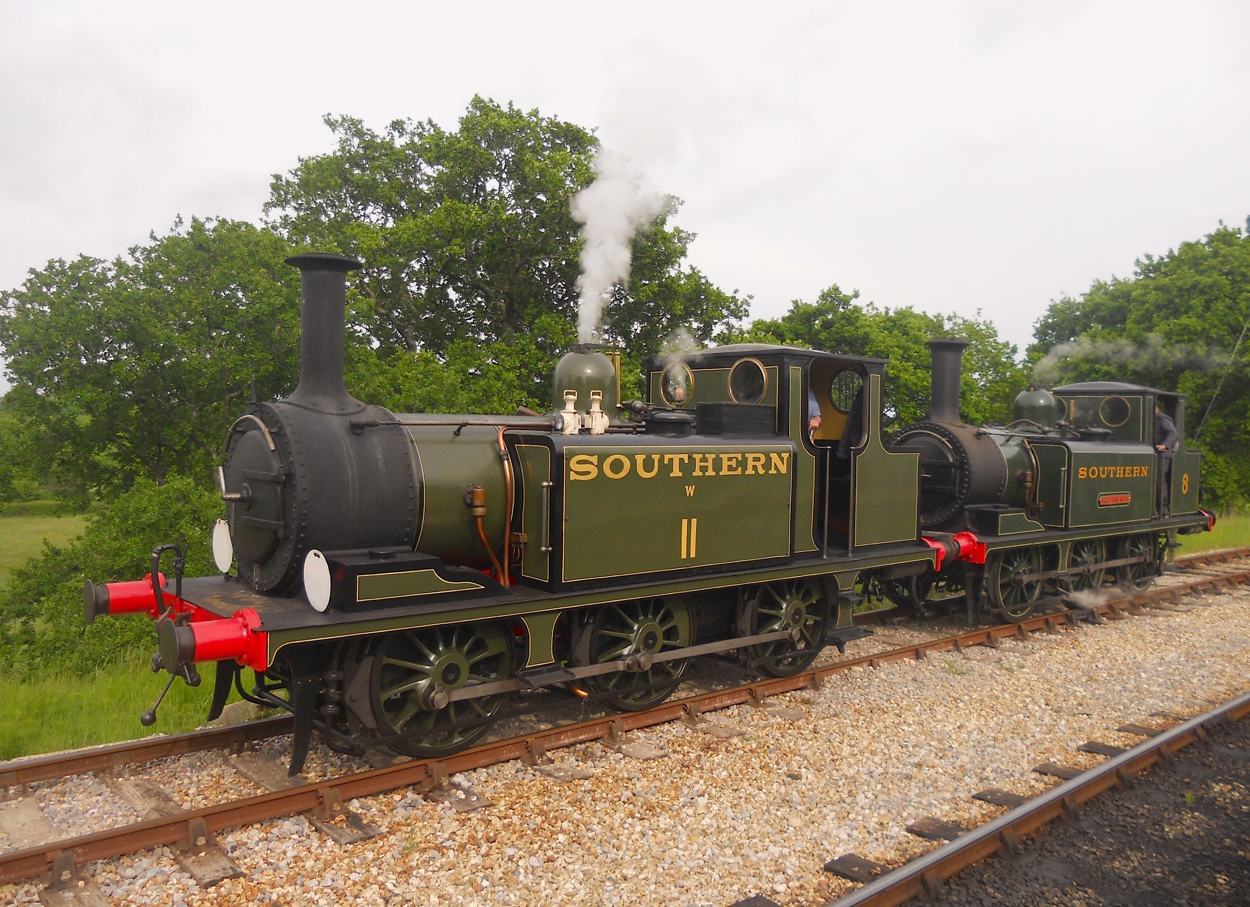 Both Southern 0-6-0T Class A1X/Terrier W11 and W8 run round the train at Wootton on the Isle of Wight Steam Railway